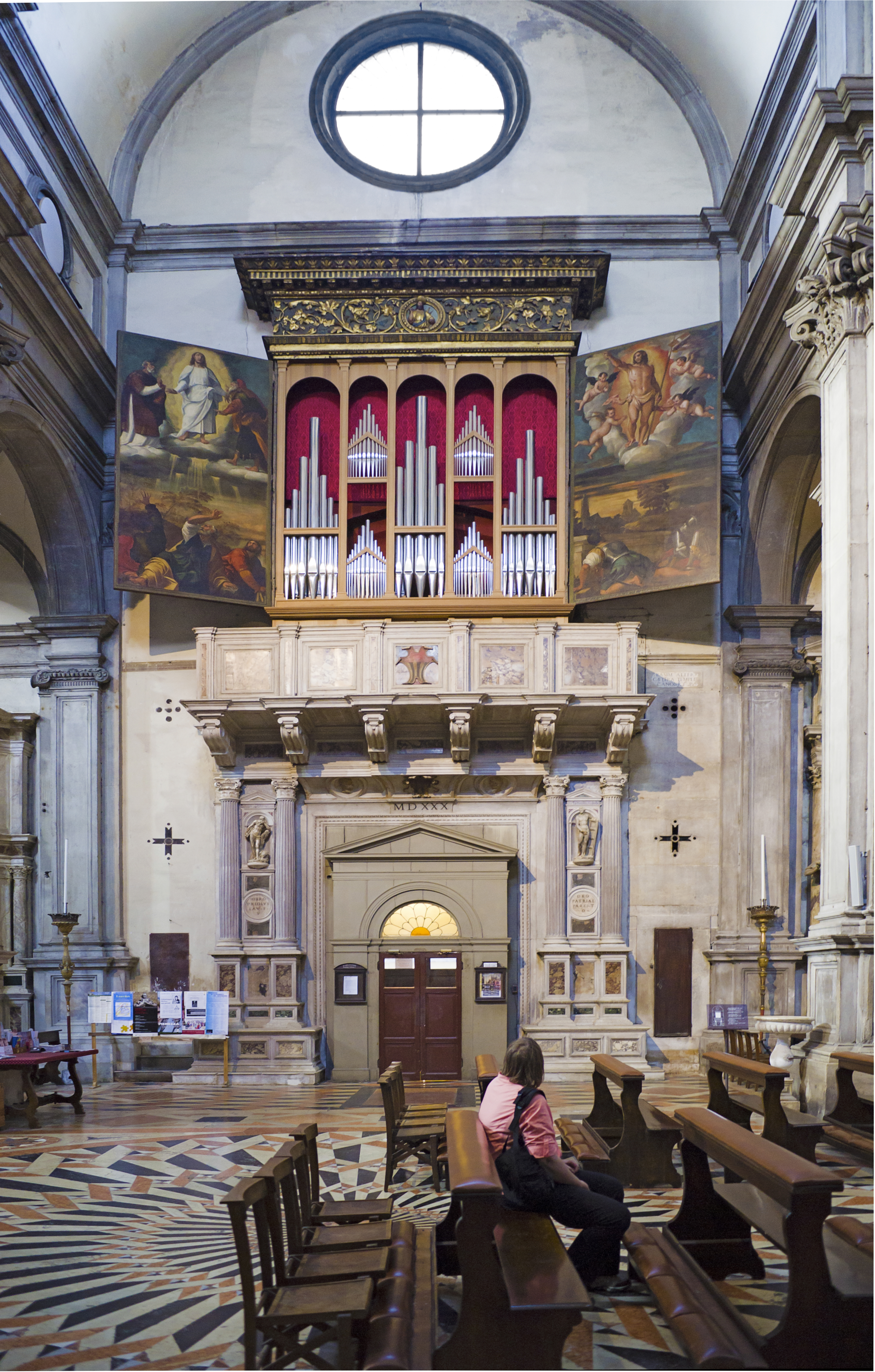 San Salvatore, Venice - Organ